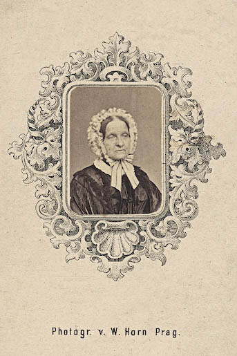 Wilhelm Horn, portrait of the unknown lady, cca 1860